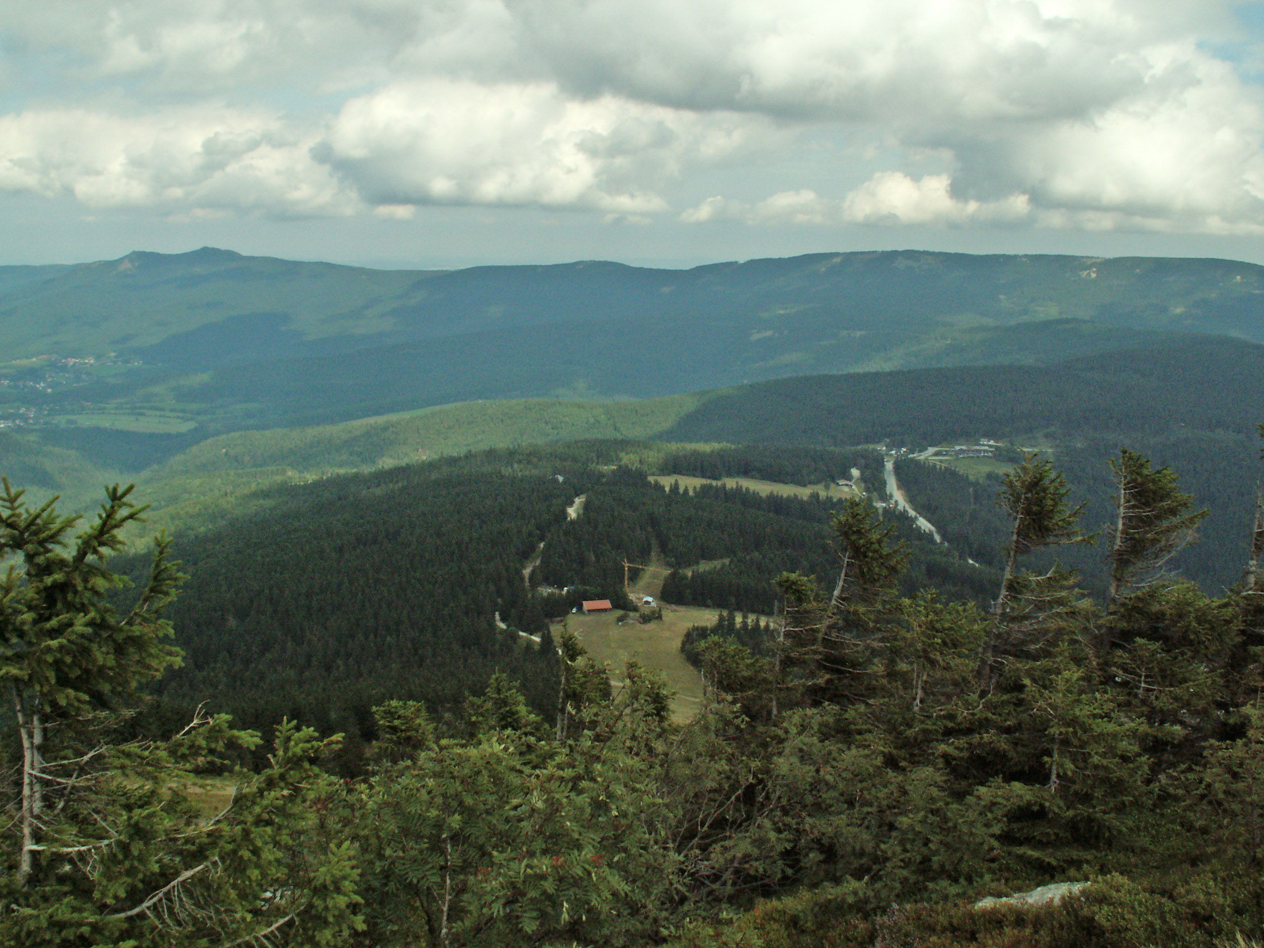 Mountain Ostrý in Bohemian Forest from Großer Arber (Bavaria)